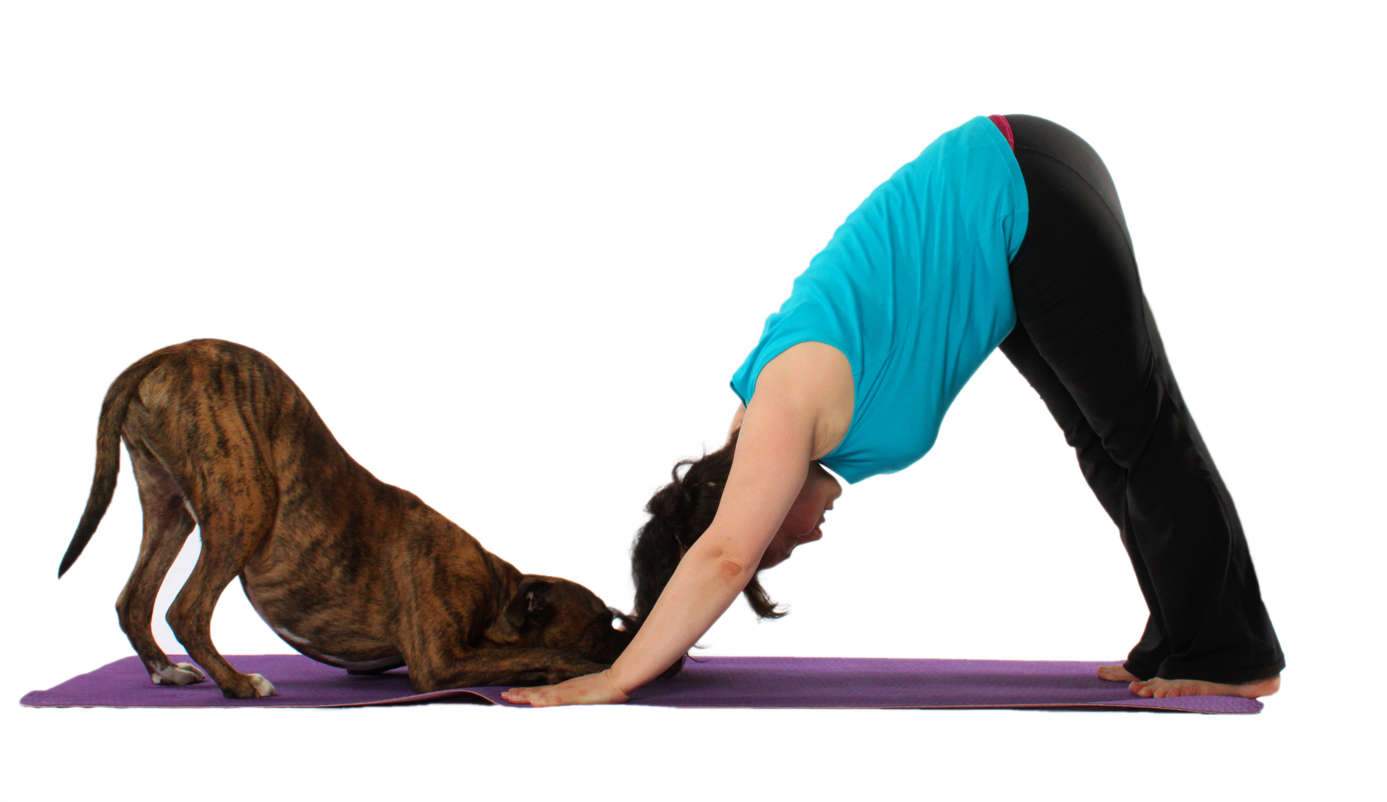 Downward dog pose or Adho mukha śvānāsana